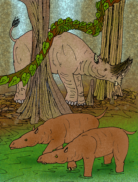 My reconstructions of the African Oligocene mammals Arsinoitherium zitteli, and Bothriogenys fraasi, from what is now Al Fayyum oasis. A. zitteli was an ungulate related to elephants and hyraxes, while B. fraasi was an anthracothere artiodactyl, related to hippos, pigs, and whales. Based off of reconstructions in (Alan Turner & Mauricio Anton: Evolving Eden, An Illustrated Guide to the Evolution of the African Large-Mammal Fauna. Columbia University Press, New York 2004 ISBN 0-231-11944-5) (c) Stanton F. Fink